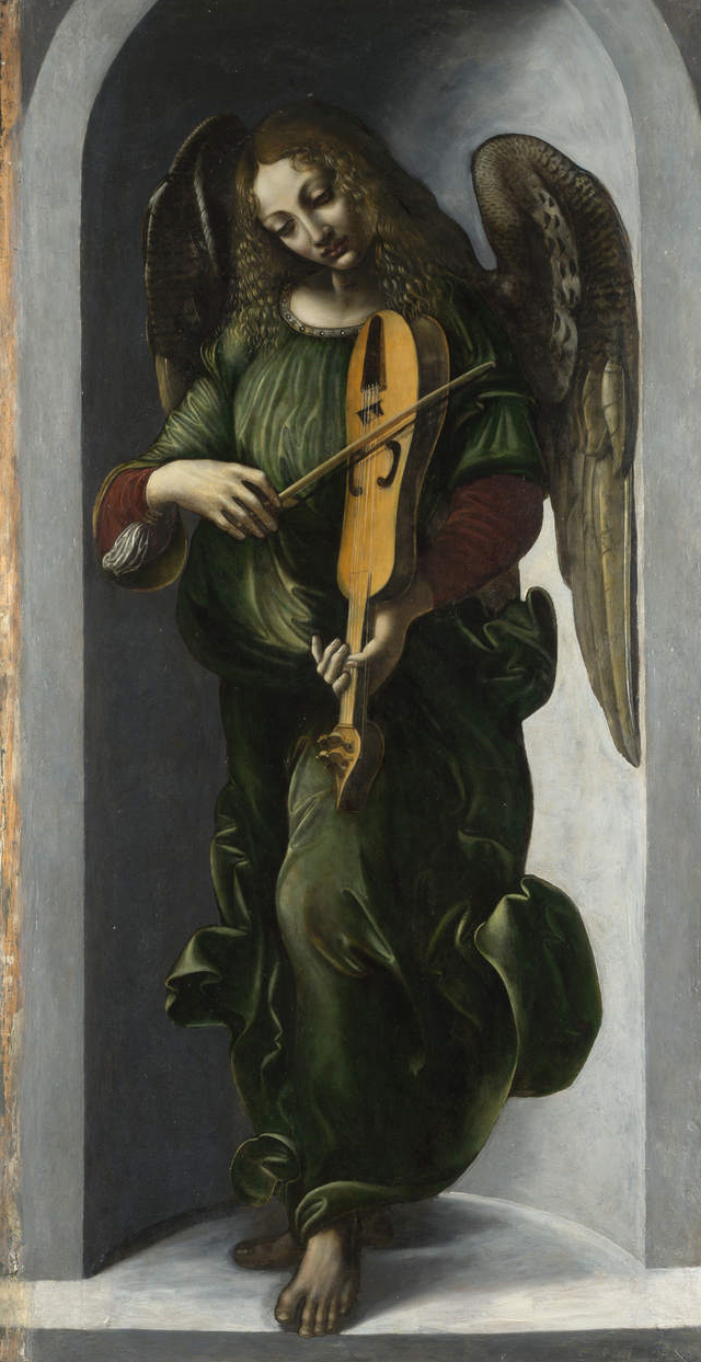 Angel with violin / Panels from the S. Francesco Altarpiece, Milan